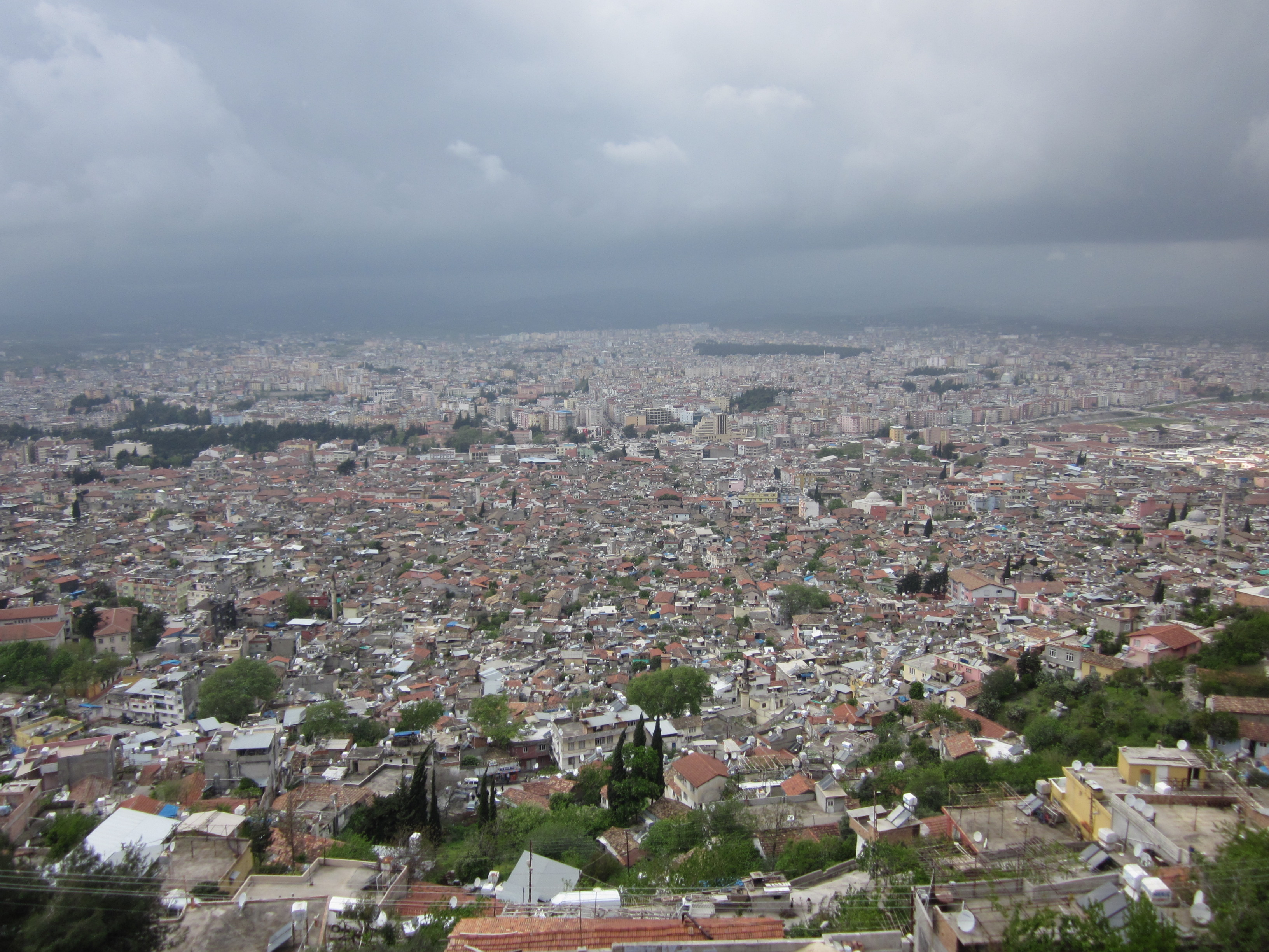 Antioch, Turkey. Antioch, Turkey.